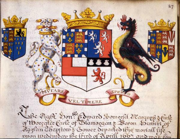 Coat of arms of Edward Somerset, 2nd Marquess of Worcester (1602/3-1667). He married firstly Elizabeth Dormer (died 31 May 1635), sister of Robert Dormer, 1st Earl of Carnarvon; secondly Margaret O'Brien (died 26 July 1681), daughter of Henry O'Brien, 5th Earl of Thomond. Quarterly of 4: 1: Beaufort 2: Herbert 3: Woodville 4: Russell Two shields at sides, that at dexter showing Beaufort impaling Dormer, at sinister Beaufort impaling O'Brien (quarterly of 4).